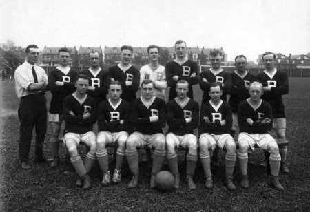 Photo of United States association football team Bethlehem Steel F.C.